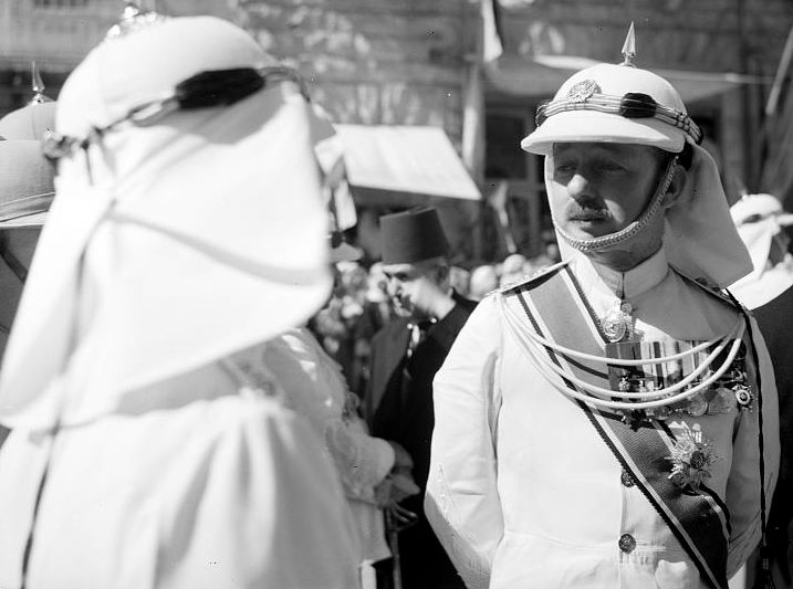 John Bagot Glubb (Glubb Pasha) in Amman, Jordan, on September 11, 1940, attending the 24th anniversary of the Arab revolt under King Hussein and Lawrence.